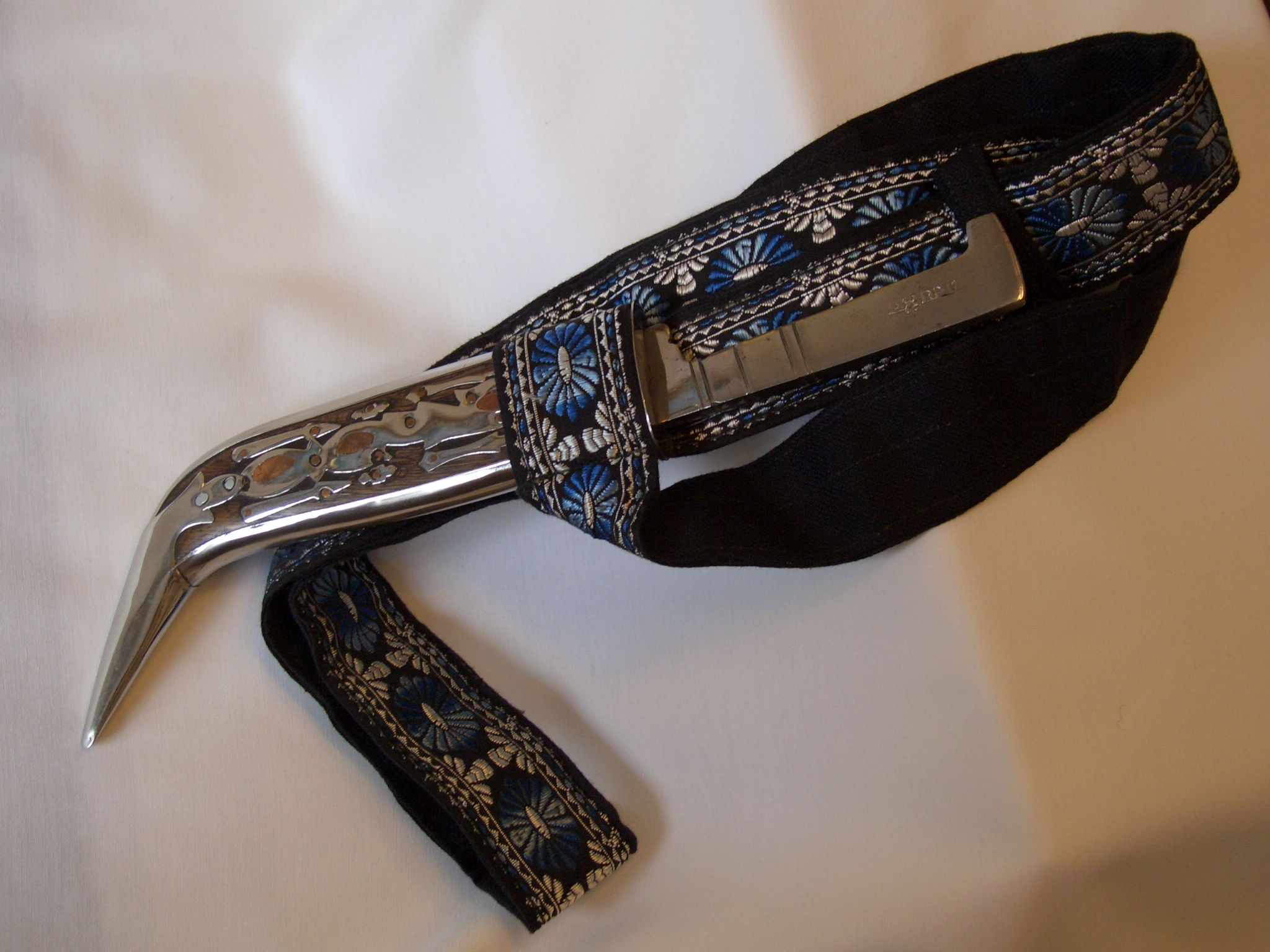 Sikhism Related Photo of medium size kirpan with a cloth 'Gatra' (belt)- one of five articles of faith (Kakaar).